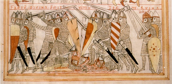 Battle scene from the commentary on the Psalms by Peter Lomard, circa 1180.